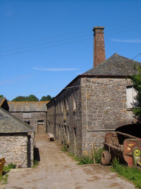 Lower Greenway Farm. Built as a model farm, with its unusual engine chimney, in the mid C19 by the owner of Greenway, and now part of the National Trust's Greenway estate. On the footpath from 191216 to Galmpton Mill.